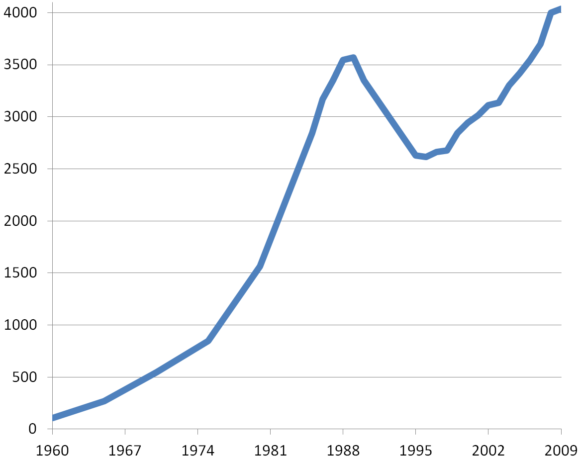 Mongolia electric power production 1960-2009 in mln KWt•h